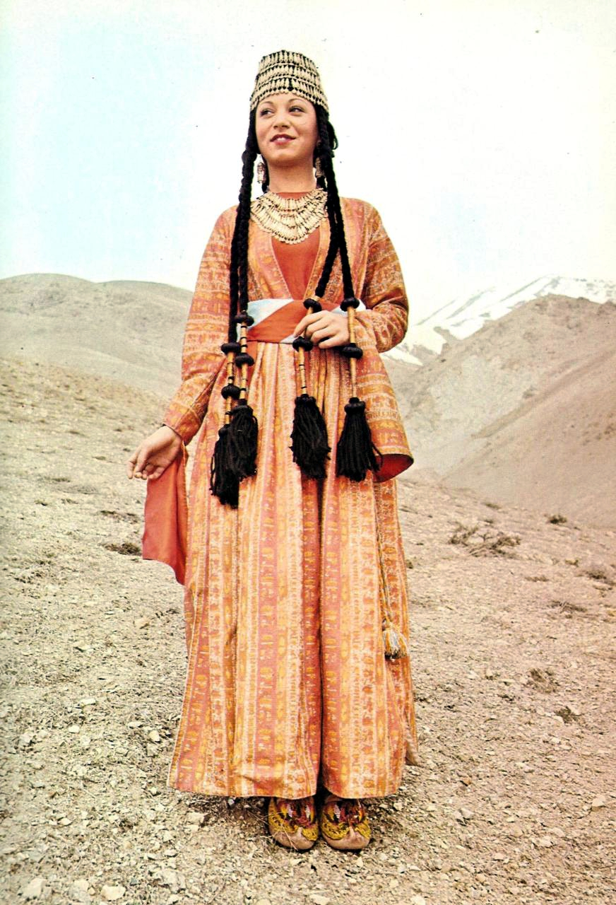 Armenian taraz (national costume) of Shatakh